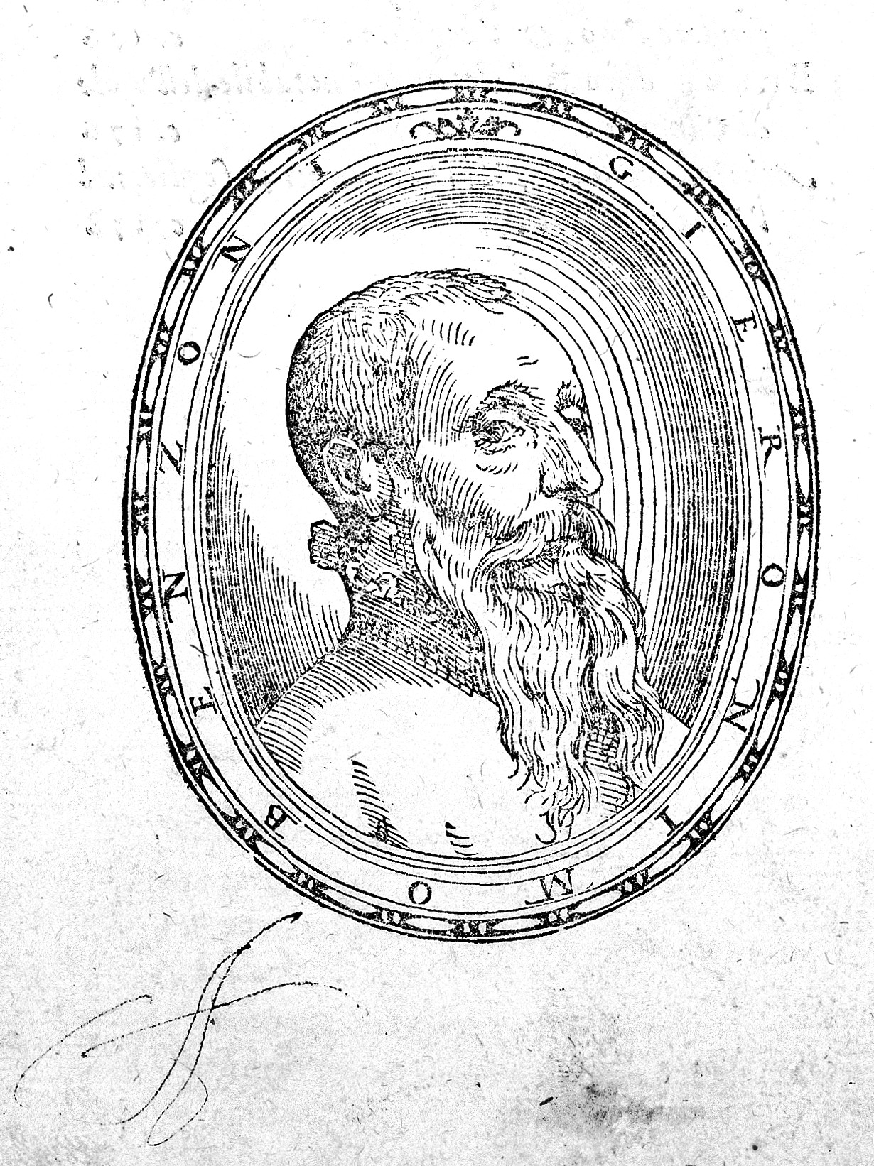 Portrait of Girolamo Benzoni Rare Books Keywords: Girolamo Benzoni